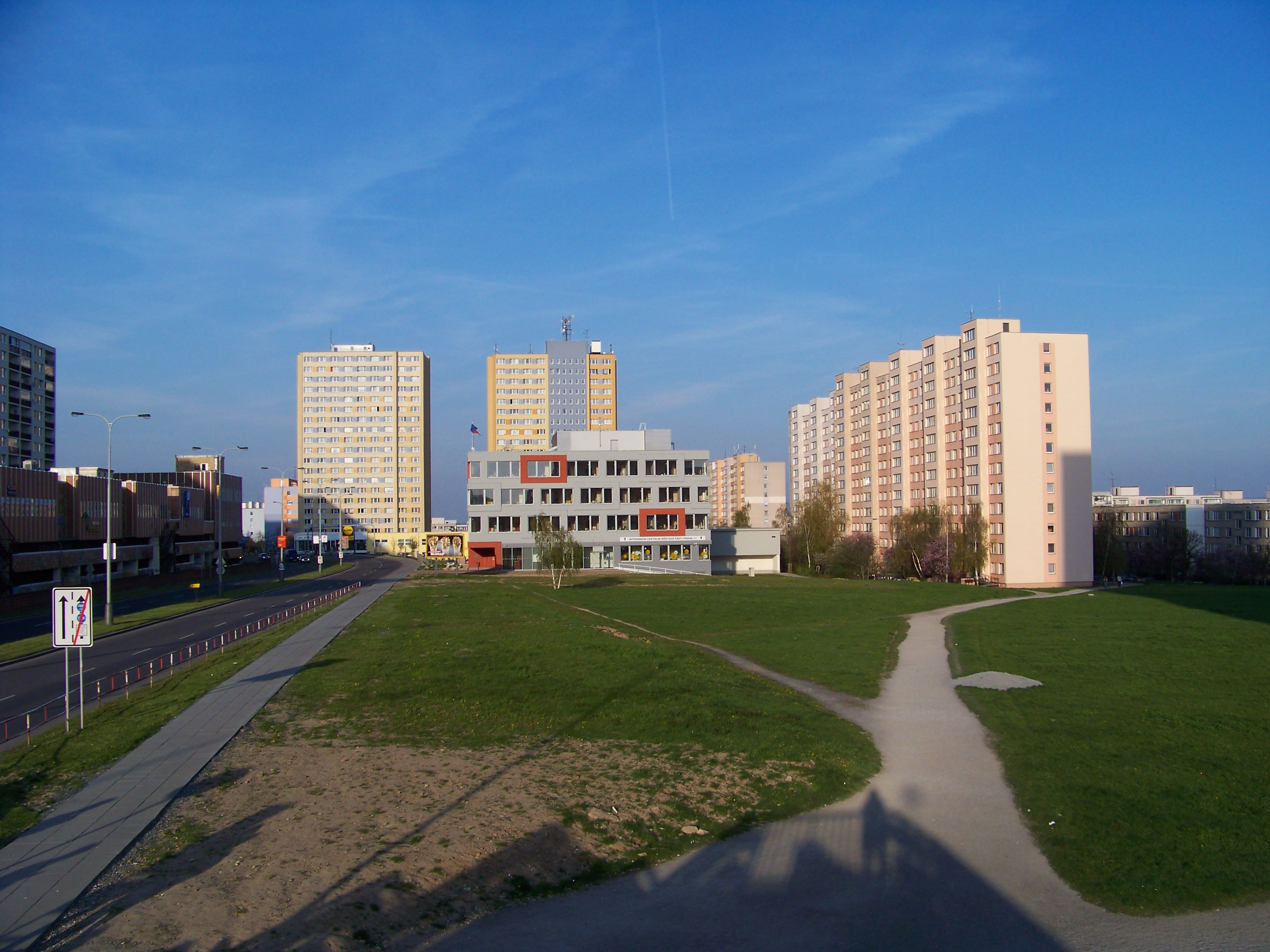 Háje, Prague, the Czech Republic. Háje Housing Estate.